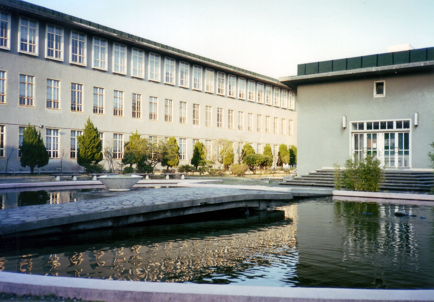 Kanazawa Hakkei Campus, Yokohama City University (March 1991)